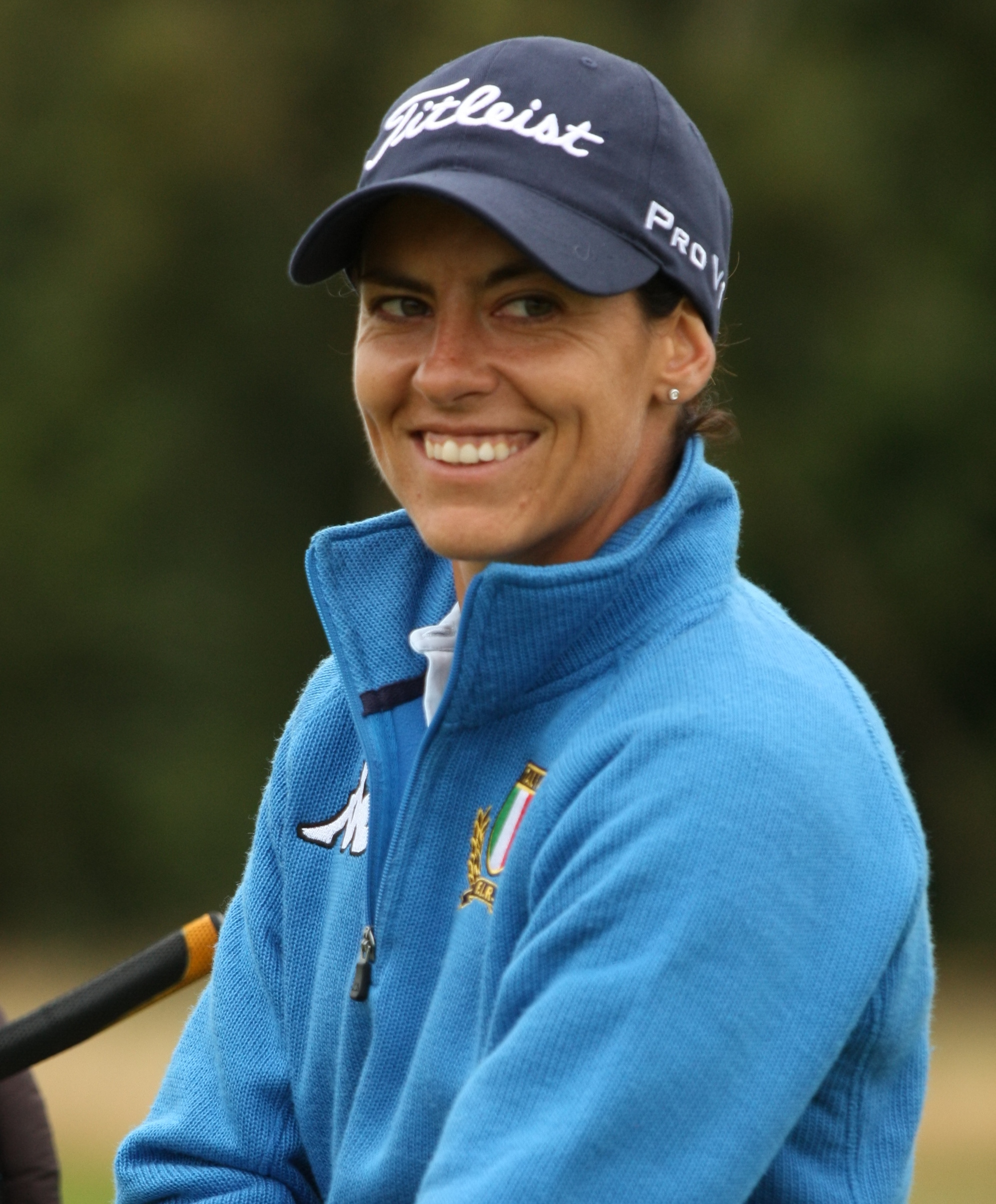 LYTHAM ST ANNES, UNITED KINGDOM - JULY 29: Federica Piovano of Italy on the 11th green during third practice round before 2009 Ricoh Women's British Open held at Royal Lytham & St Annes on July 29, 2009 in Lytham St Annes, England. (Photo by Wojciech Migda)